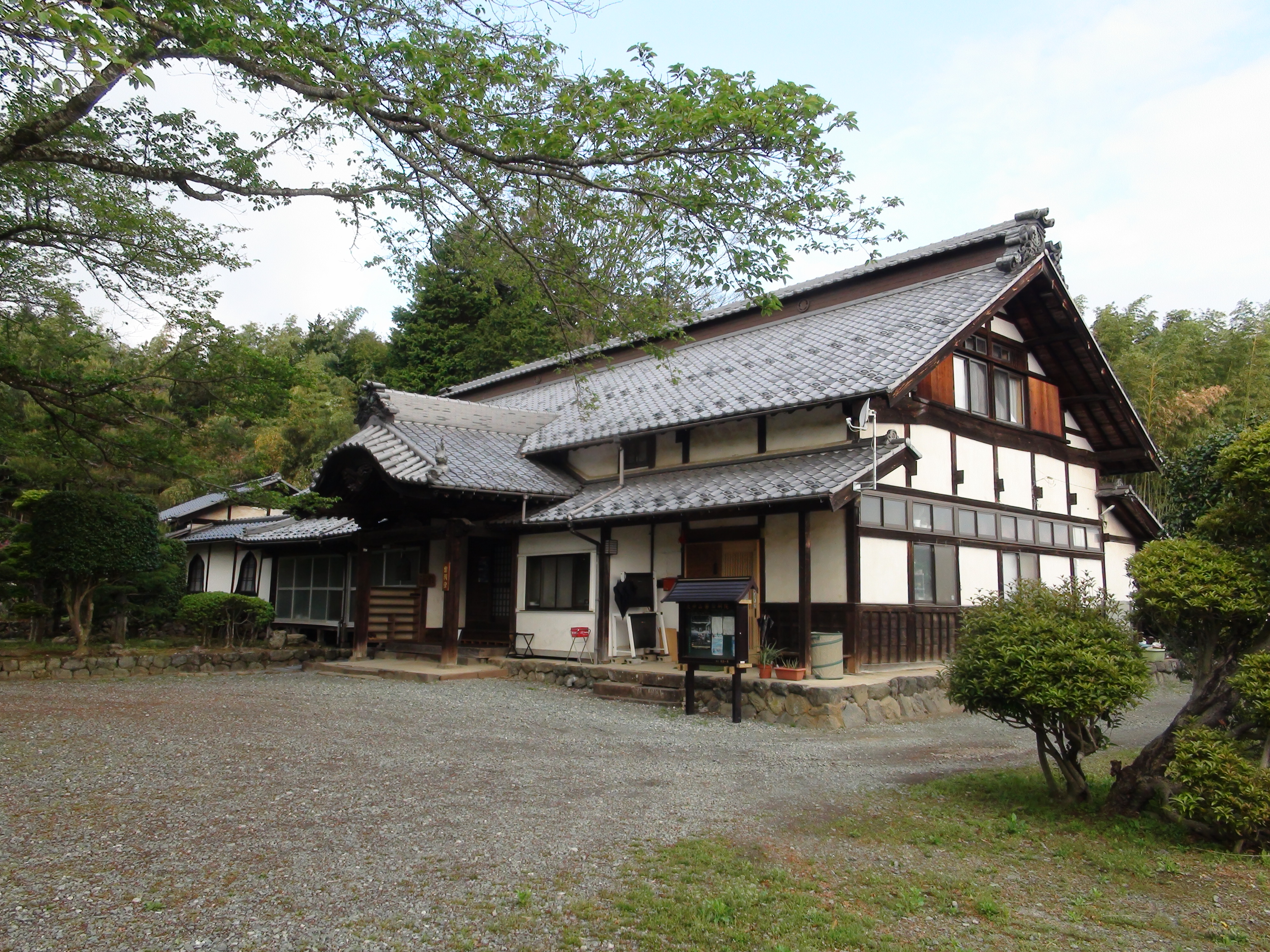 Denshiin main hall